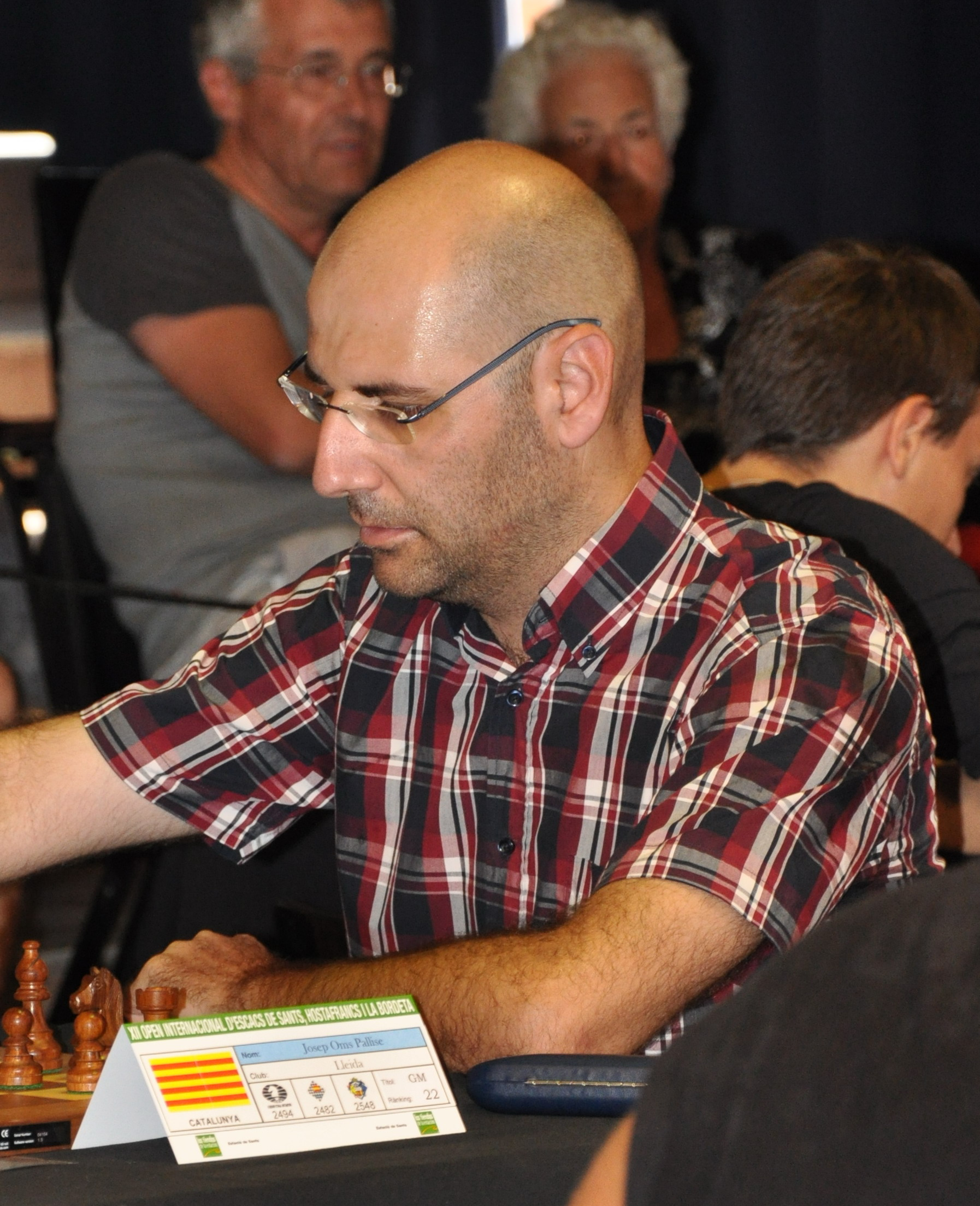 GM Josep Oms Pallisse (Spain), XII Open Internacional de Sants, Hostafrancs i la Bordeta Grup A, Barcelona 2010